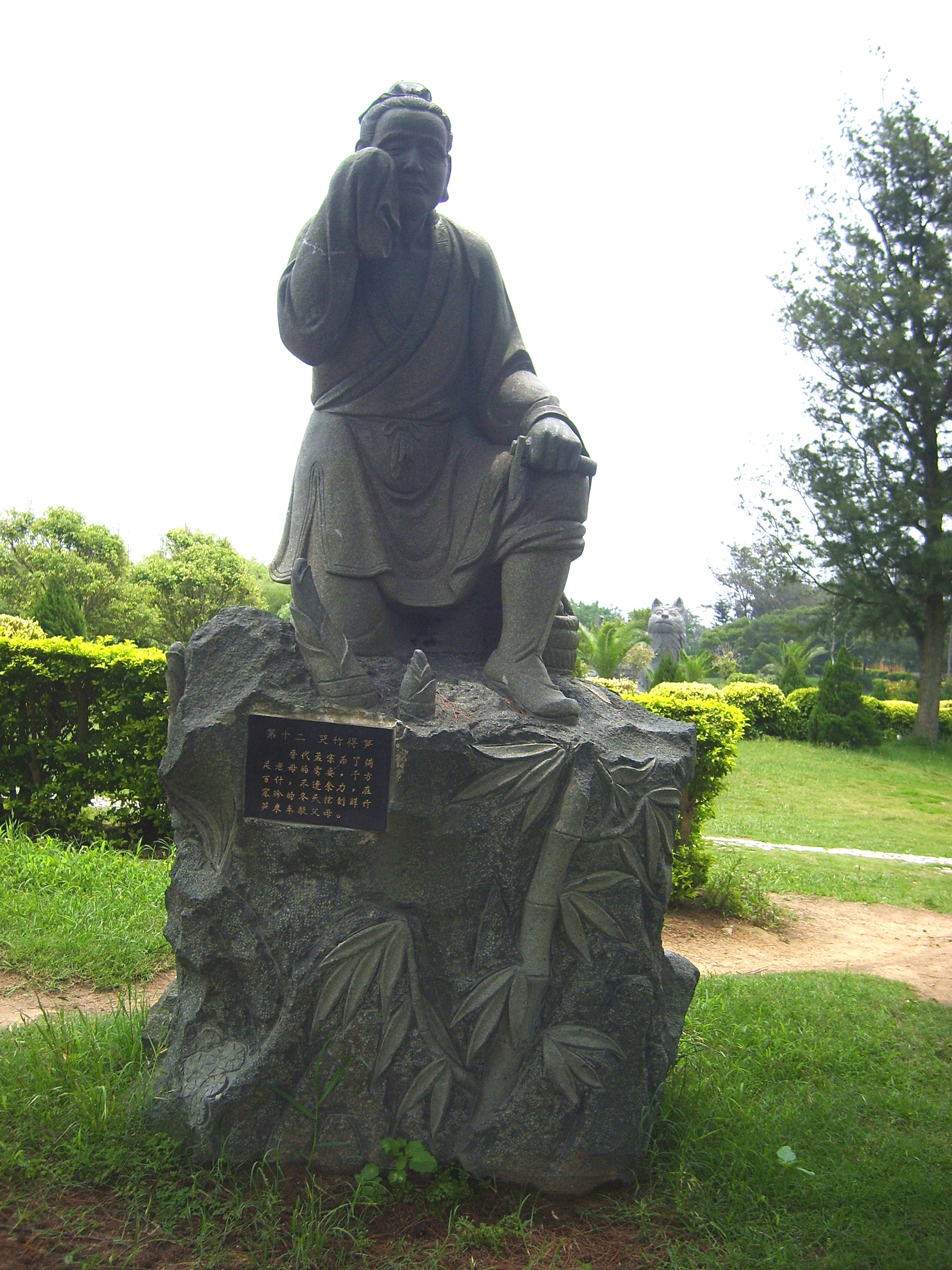 The Twenty-four Filial Exemplars - No. 12